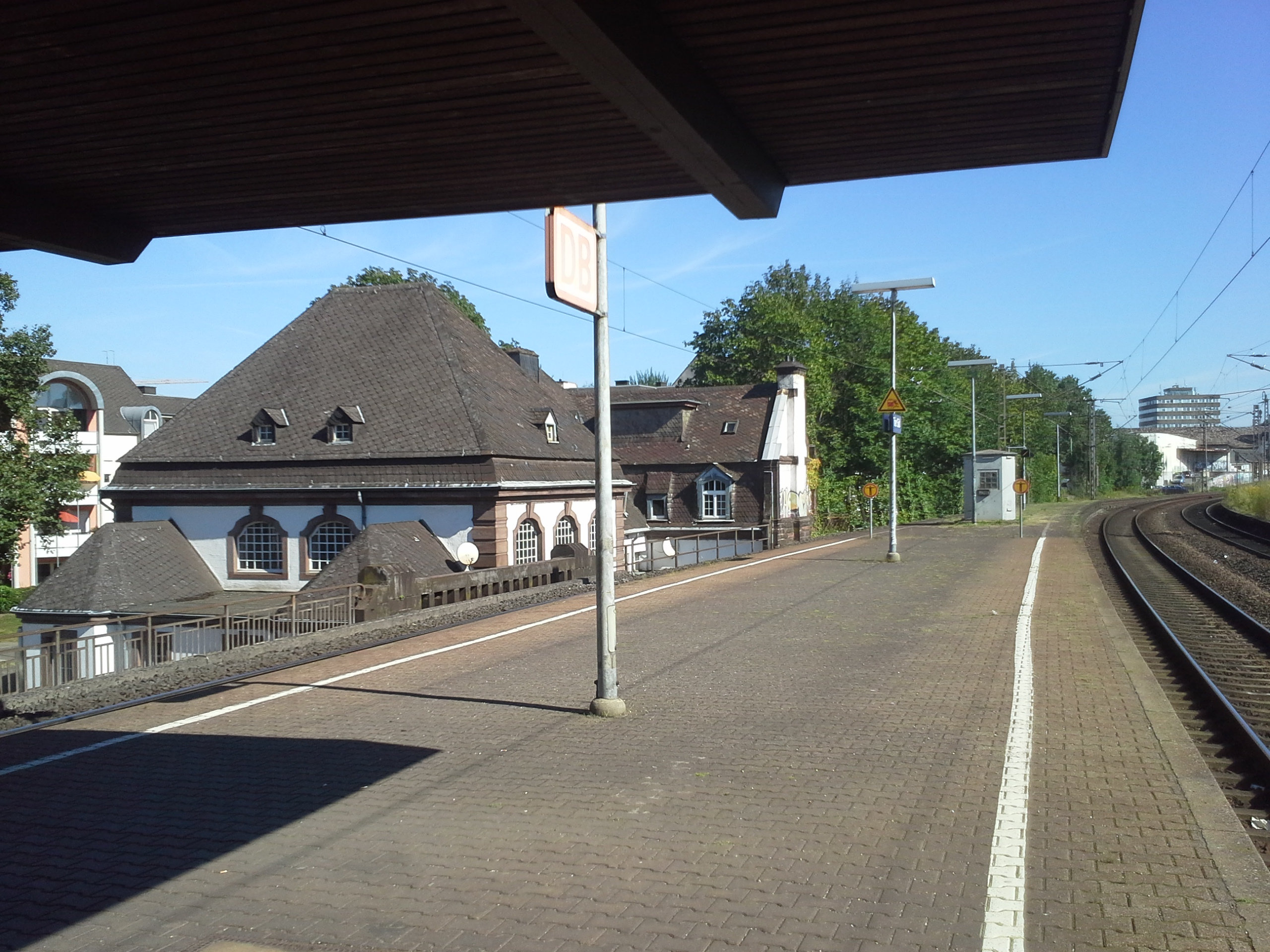 View of platform 1 and 2 at Trier-Süd station, Trier, Germany. To the left is the old train station.